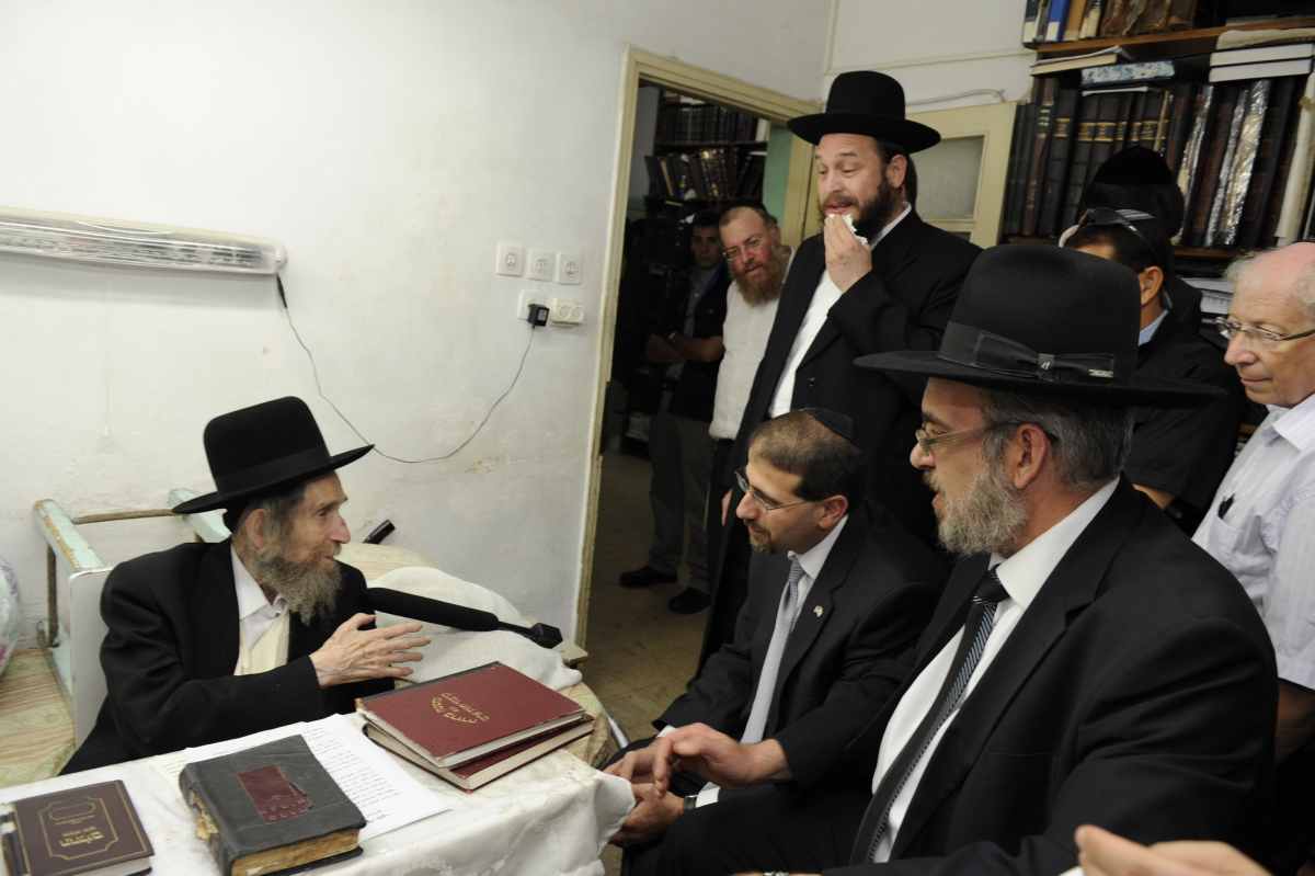 U.S. Ambassador Dan Shapiro visit the city of Beni Brak U. S Ambassador Dan Shapiro and Ms Julie Fisher made a pre-Rosh Hashanah visit to Bnei Brak. There they met with Mayor Rabbi Yaakov Asher and other city officials and learned first-hand about the economic developments, challenges and opportunities taking place in Bnei Brak within the ultra-orthodox communities. They took the opportunity to meet Rabbi Aharon Leib Steinman, prominent ultra-orthodox spiritual leader of the Lithuanian communities, at his residence. There they heard Rabbi Steinman praise America, echoing the words engraved in the Statue of liberty, for opening its doors to ”the poor and needy”, that is what made America great, the land of the free. Following this meeting, the Ambassador and his wife toured Ateret Rachel Women’s Seminary, where they met, among others, the president of the seminary , Mrs. Zippi Yishai; the principal of the school, Rebbetzin Zvia Bukhris; and Rabbi Zemach Mazuz, the head of Kisse Rahamim Yeshiva, Bnei Brak. The school receives US funded grant for English language instruction. They entered a class and spoke to the students, and took questions, on the importance of learning English. Another highlight was their visit to Mayanei Hayeshua Medical Center, where they were welcomed by Dr. Moshe Rothschild, the founder and president of the medical center, and Rabbi Gershon Lieder, CEO; and Dr. Motti Ravid the Medical Director; and many other senior doctors and staff. They got to see the premature baby wards and maternity wards, learning how the hospital combines medical care with strict ethical care to show the importance and holiness in saving human lives. Ambassador Shapiro ended the visit by shopping at a local deli and eatery on Rabbi Akiva Street. Behind the scenes Rabbi Moshe Eizen, CEO of Bnei Brak Development Fund, who helped make all the arrangements possible.